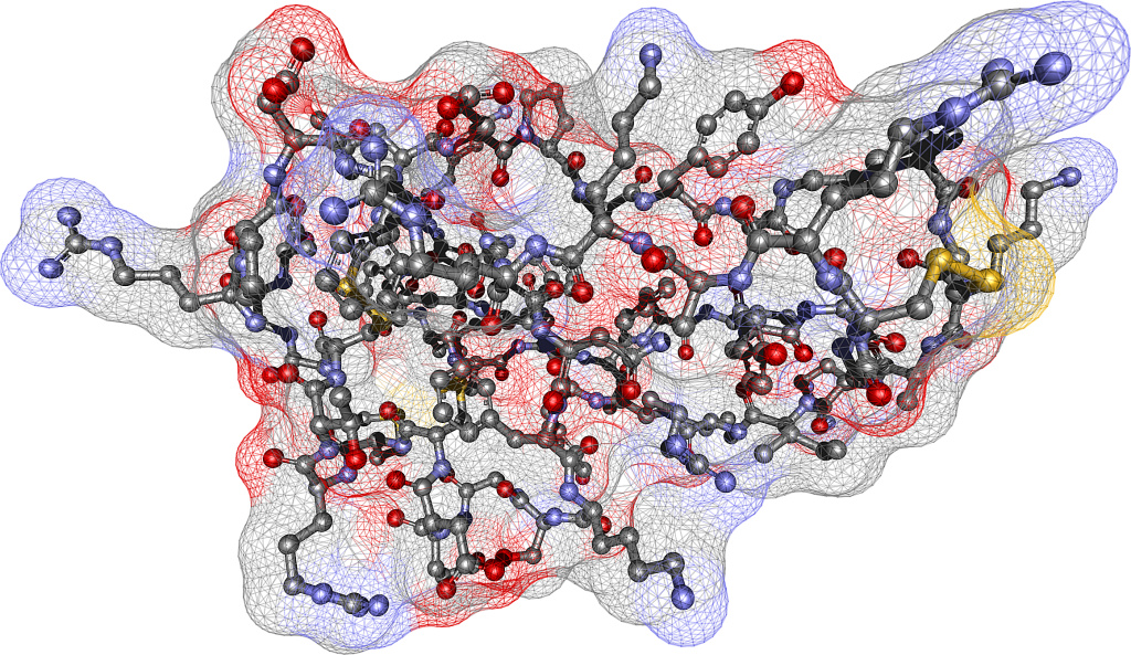 Bovine Trypsin Inhibitor from the PDB file 2PTC without the hydrogen atoms, visualized with a solvent excludes surface as wireframe and a Ball-and-Stick model. Created with BALLView